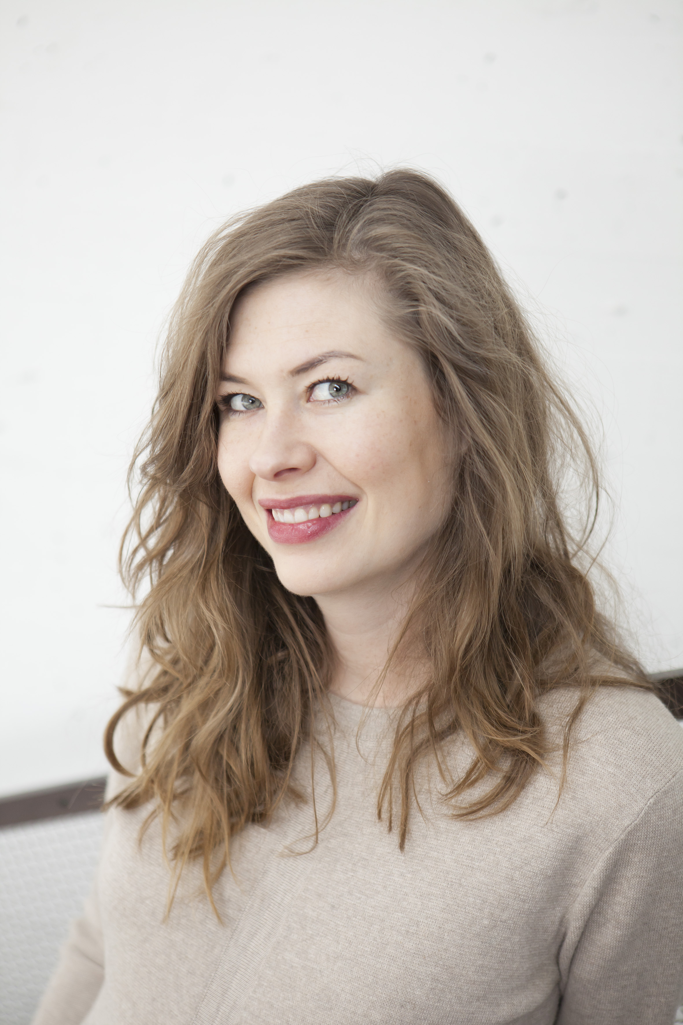 Kiasmassa taiteilija Heta Kuchka artist in Kiasma photo: Kansallisgalleria / Pirje MykkänenFinnish National gallery / Pirje Mykkänen